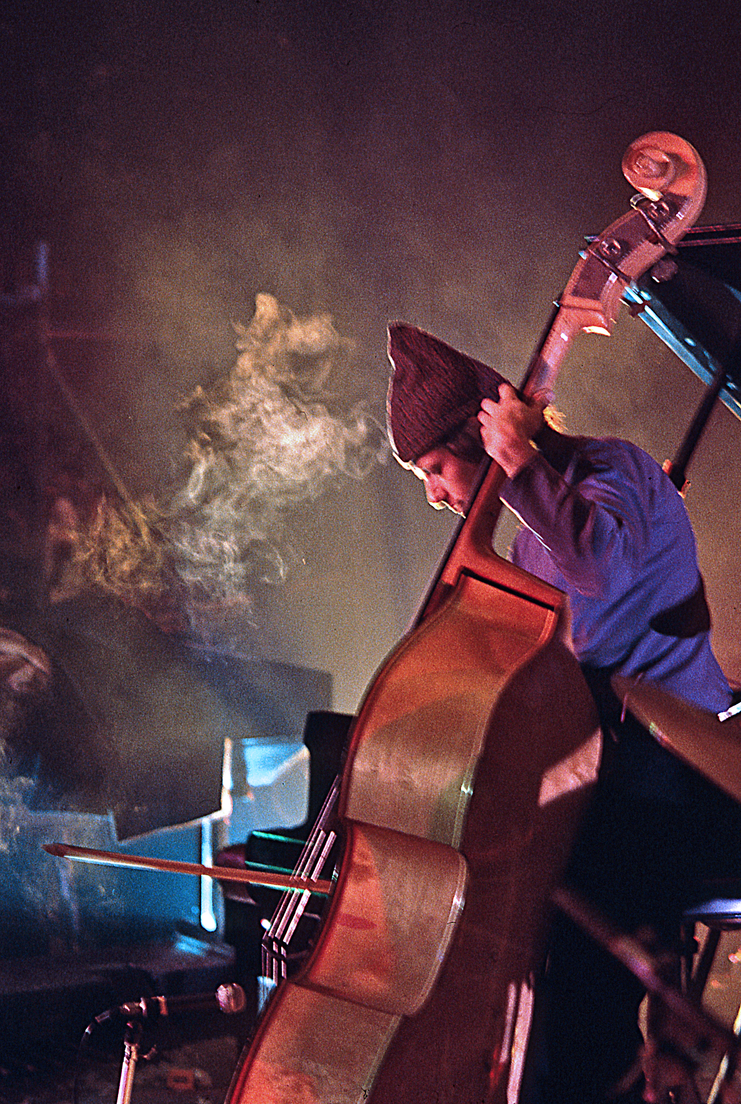 Alan Silva in 1969 (A pop music festival somewhere in Belgium in 1969. Originally organized in Paris, it was prohibited by the authorities. It was held under a barnum in full November. From where mist around the musicians. )